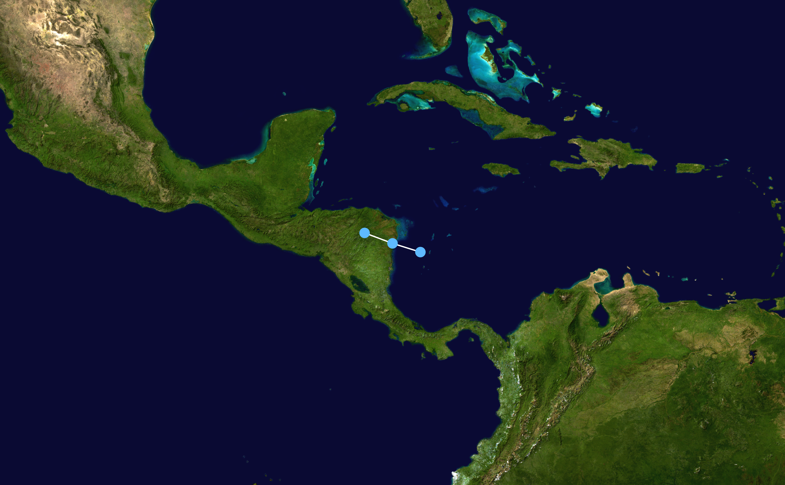 Track map of Tropical Depression Nine of the 2001 Atlantic hurricane season. The points show the location of the storm at 6-hour intervals. The colour represents the storm's maximum sustained wind speeds as classified in the Saffir–Simpson scale (see below), and the shape of the data points represent the nature of the storm, according to the legend below. Saffir–Simpson scale Tropical depression≤38 mph≤62 km/h Category 3111–129 mph178–208 km/h Tropical storm39–73 mph63–118 km/h Category 4130–156 mph209–251 km/h Category 174–95 mph119–153 km/h Category 5≥157 mph≥252 km/h Category 296–110 mph154–177 km/h Unknown Storm type Tropical cyclone Subtropical cyclone Extratropical cyclone / Remnant low / Tropical disturbance / Monsoon depression